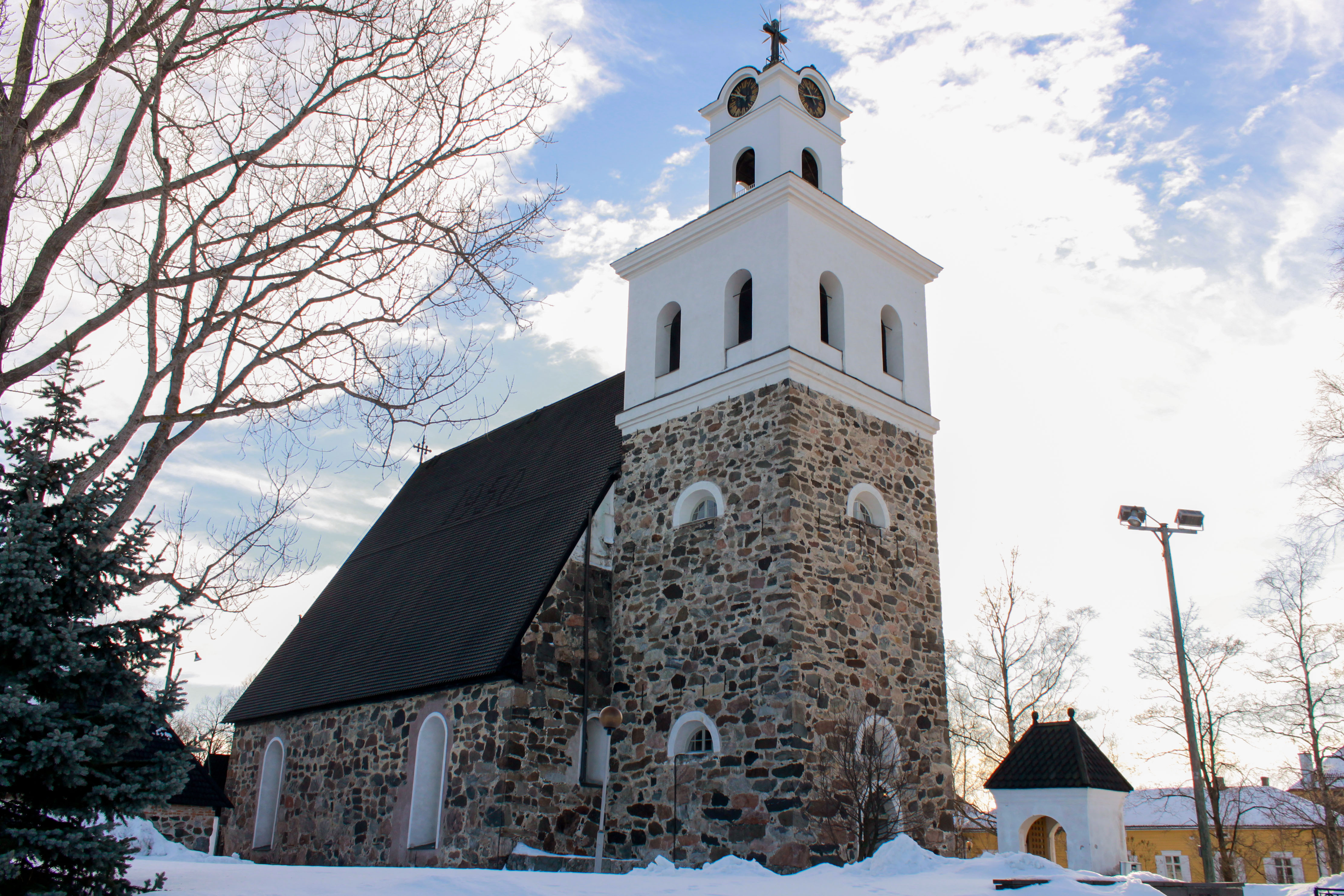 The Church of the Holy Cross in Rauma, Finland